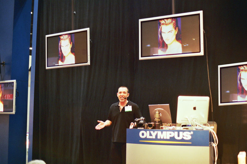 Snapshot of Jerry Avenaim from PMA lecture in Orlando, Florida